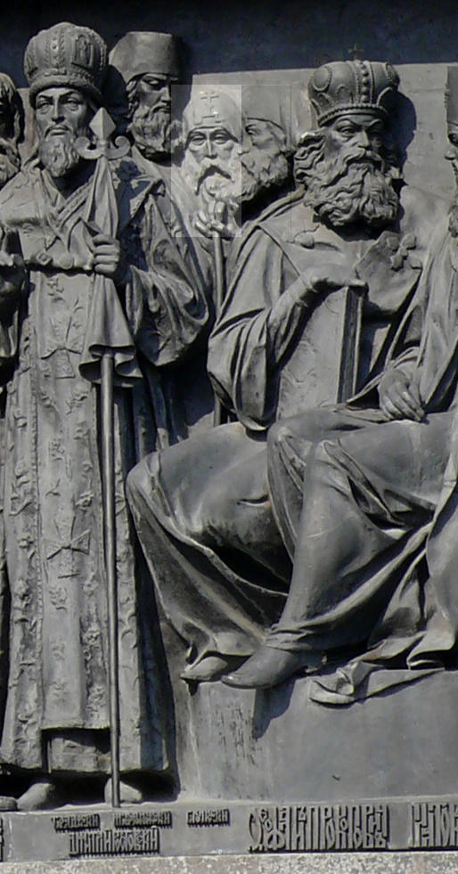 Mitrophan of Voronezh on the Monument "Millennuim of Russia" in Veliky Novgorod